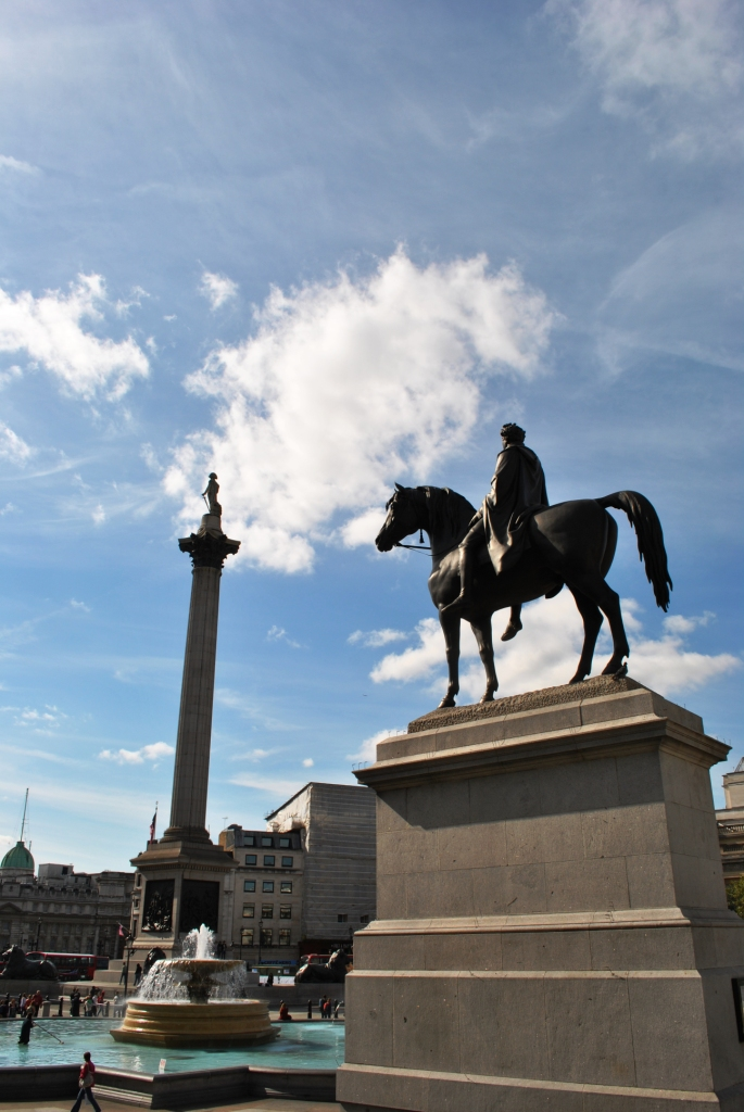 Nelson's Column